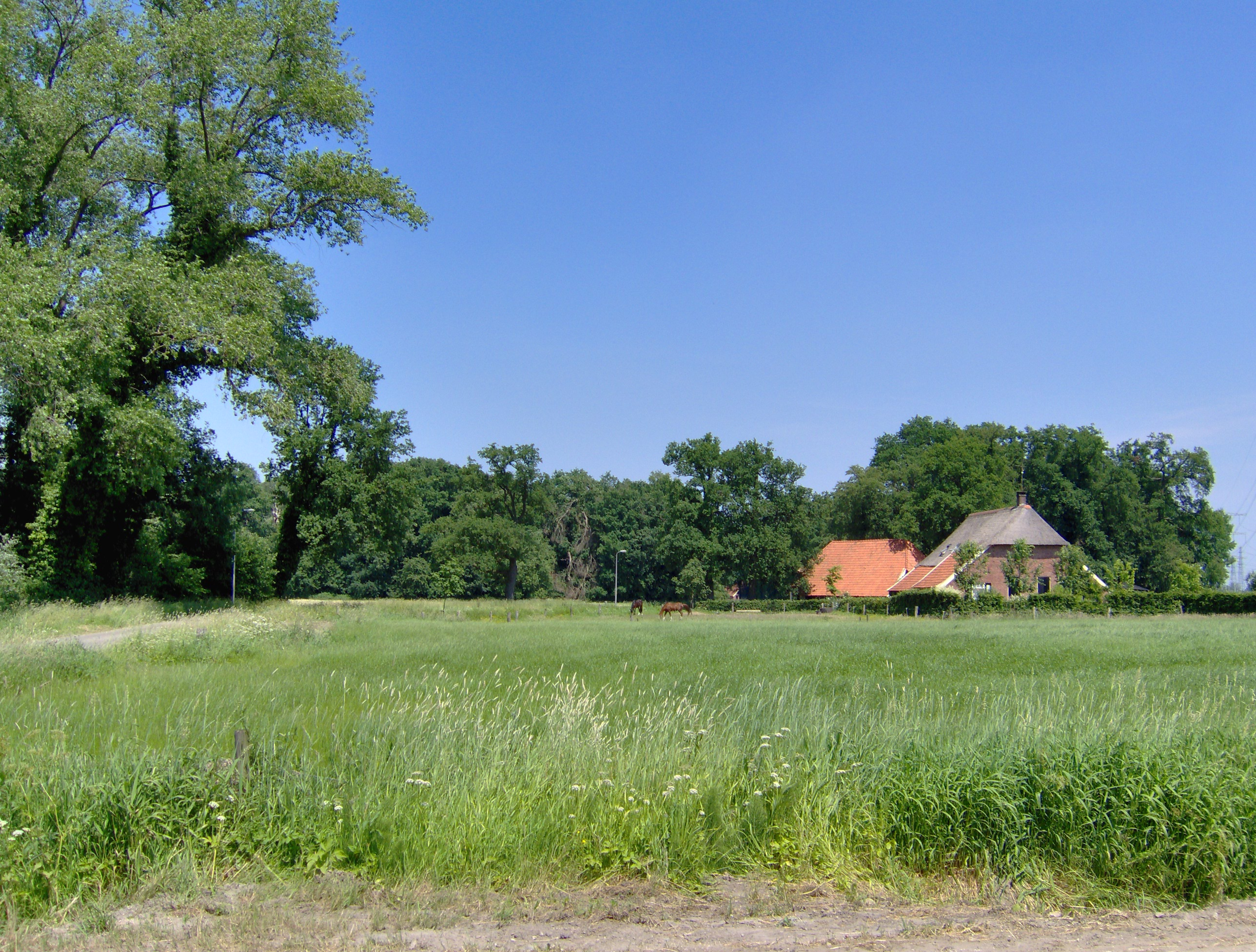 View on the "outskirts" of Woolde, a hamlet in the municipality of Hengelo, Netherlands